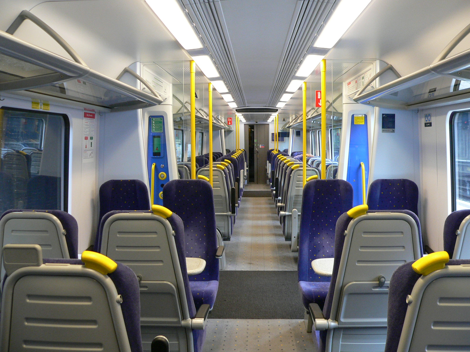 The interior of a Central Trains Class 350 West Coast Desiro, photographed at Birmingham New Street railway station prior to working a service to Preston.